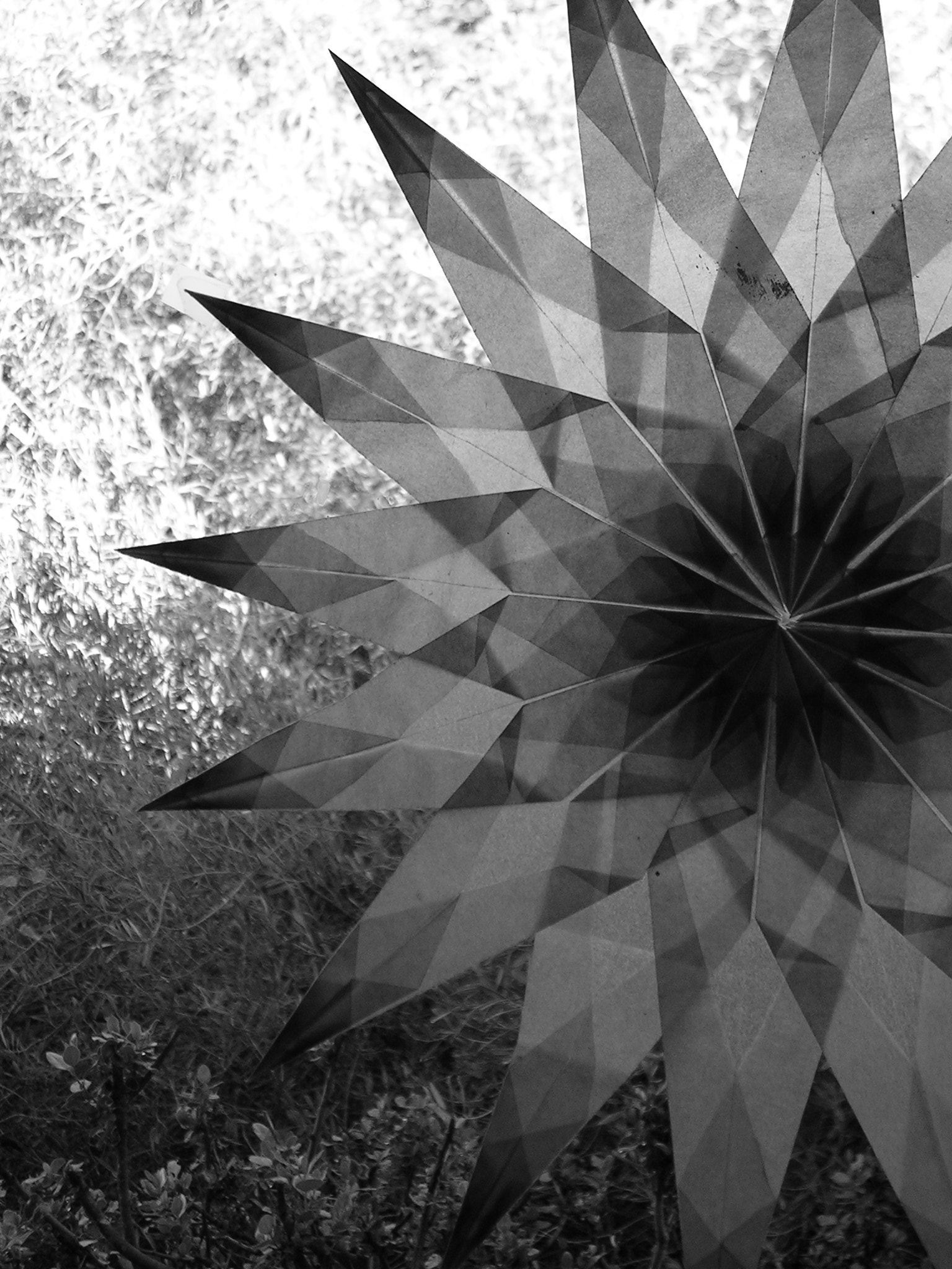 Photo taken by Mary-Irene Lang